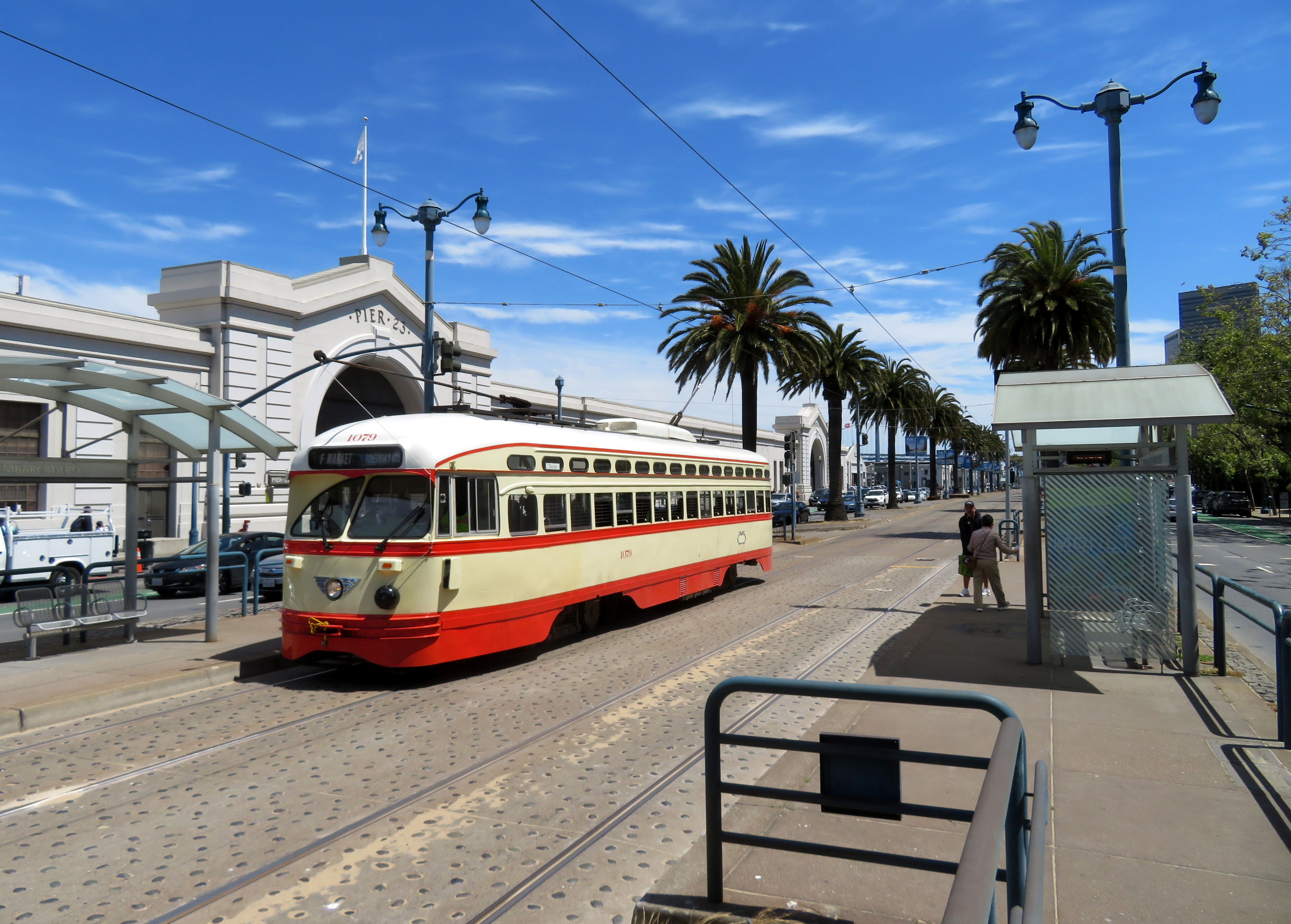 Muni 1079 northbound at The Embarcadero and Greenwich station in May 2019